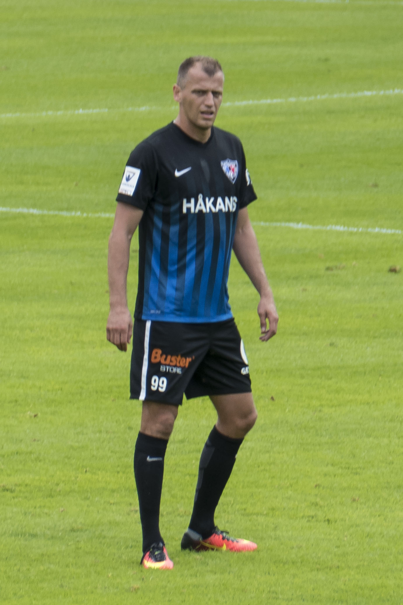 Njazi Kuqi, a Finnish footballer of Kosovar Albanian origin, playing for Inter Turku in a Veikkausliiga match against Tampere Ilves in Tampere, Finland, August 2016.